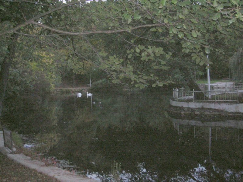 Park with boat lake. Miskolc-Tapolca, Hungary.